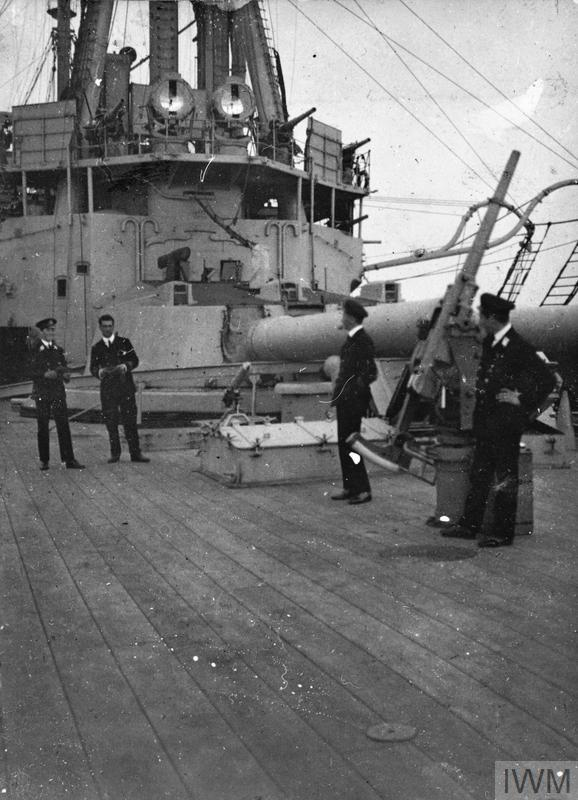 The quarterdeck of the battleship HMS Agamemnon, showing the aft 12-inch gun turret and the 3-pounder anti-aircraft gun